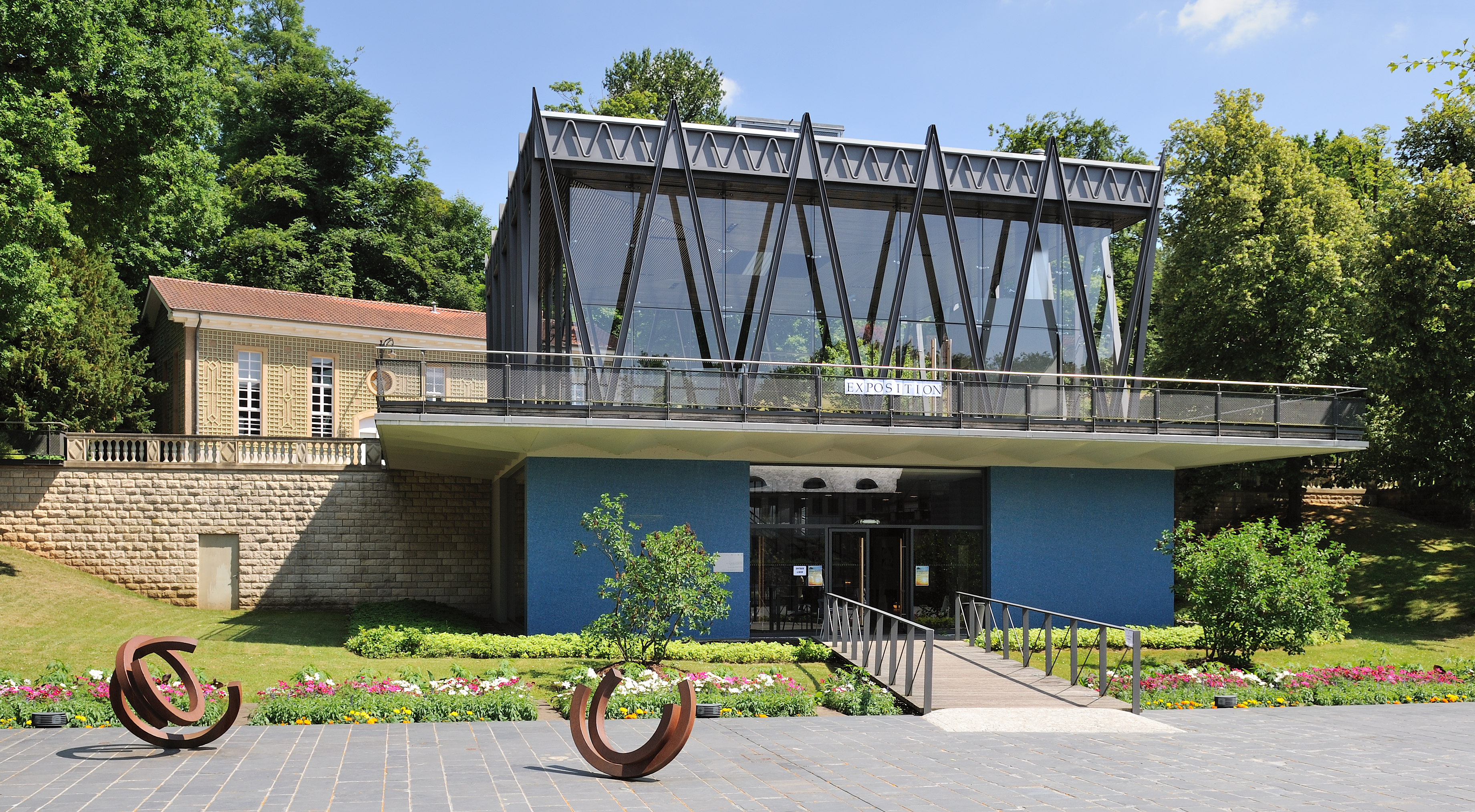 Luxembourg, Mondorf-les-Bains, park of the spa: pavillon Kind.